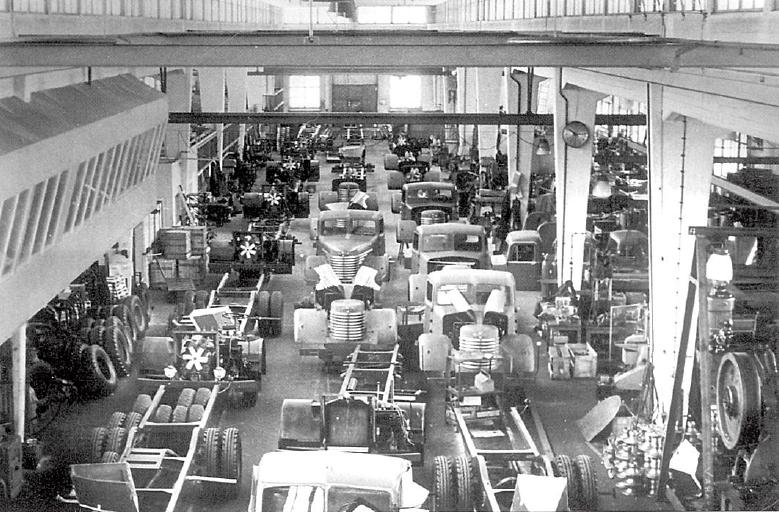 Vanajan Autotehdas main assembly hall in 1952. Due to busy time, there are three lines instead of normal two. Line for bus chassises were built generally at the left side, lorries on the right side.